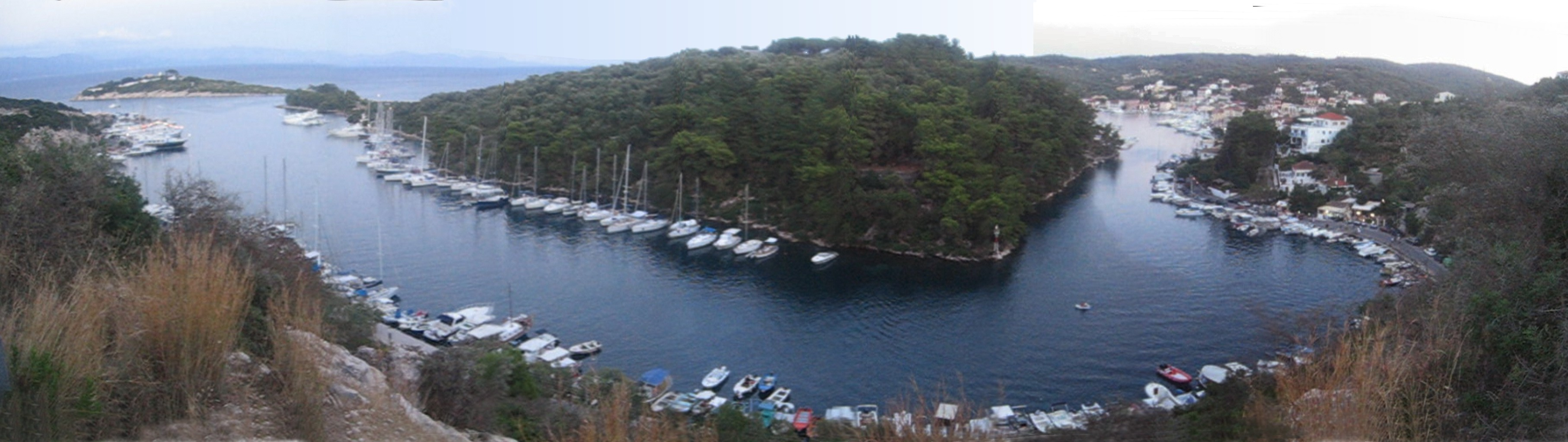 Port of Gaios in Paxos. Photographed and stitched by me in August 2006.